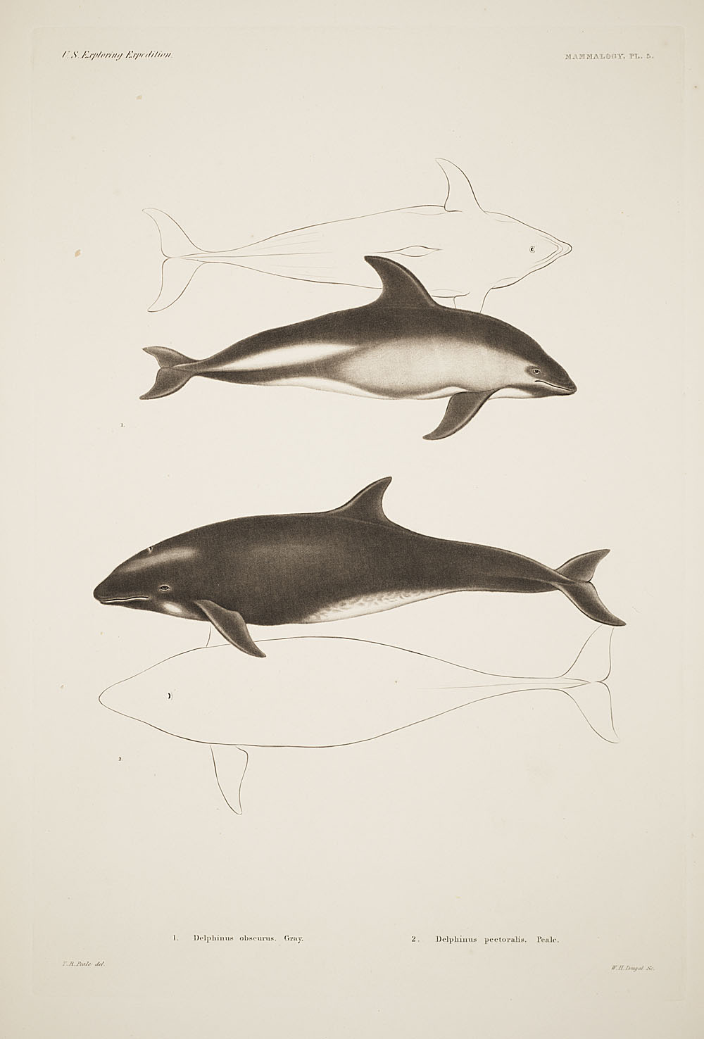 Plate 5 of Mammalogy section in Mammalogy and Ornithology (1858).